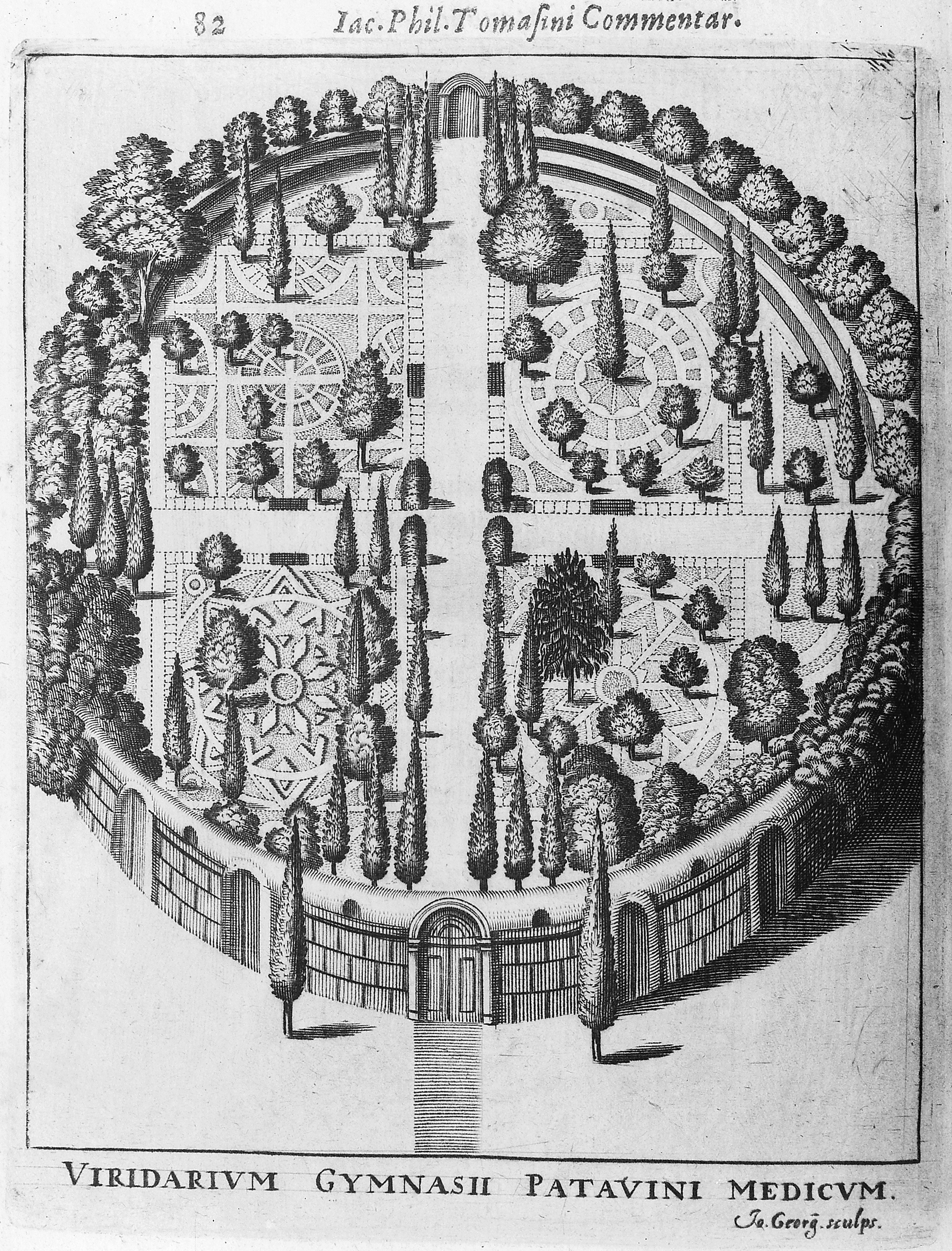 Botanical garden at Padua. Wellcome Images Keywords: Giacomo Filippo Tomasini; Botany